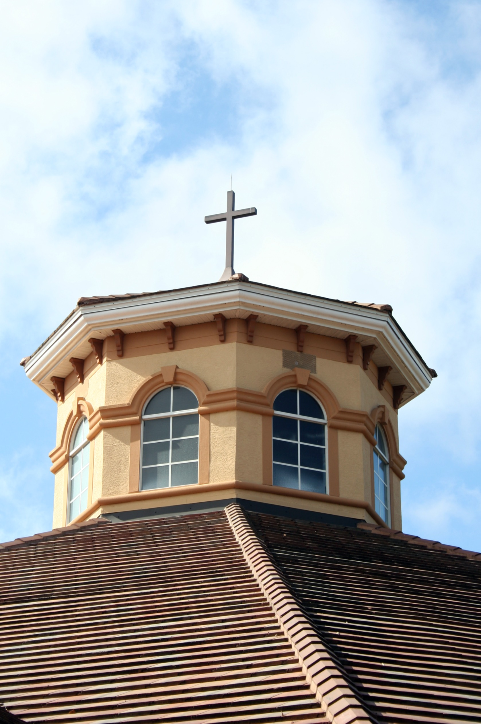 BushChapel